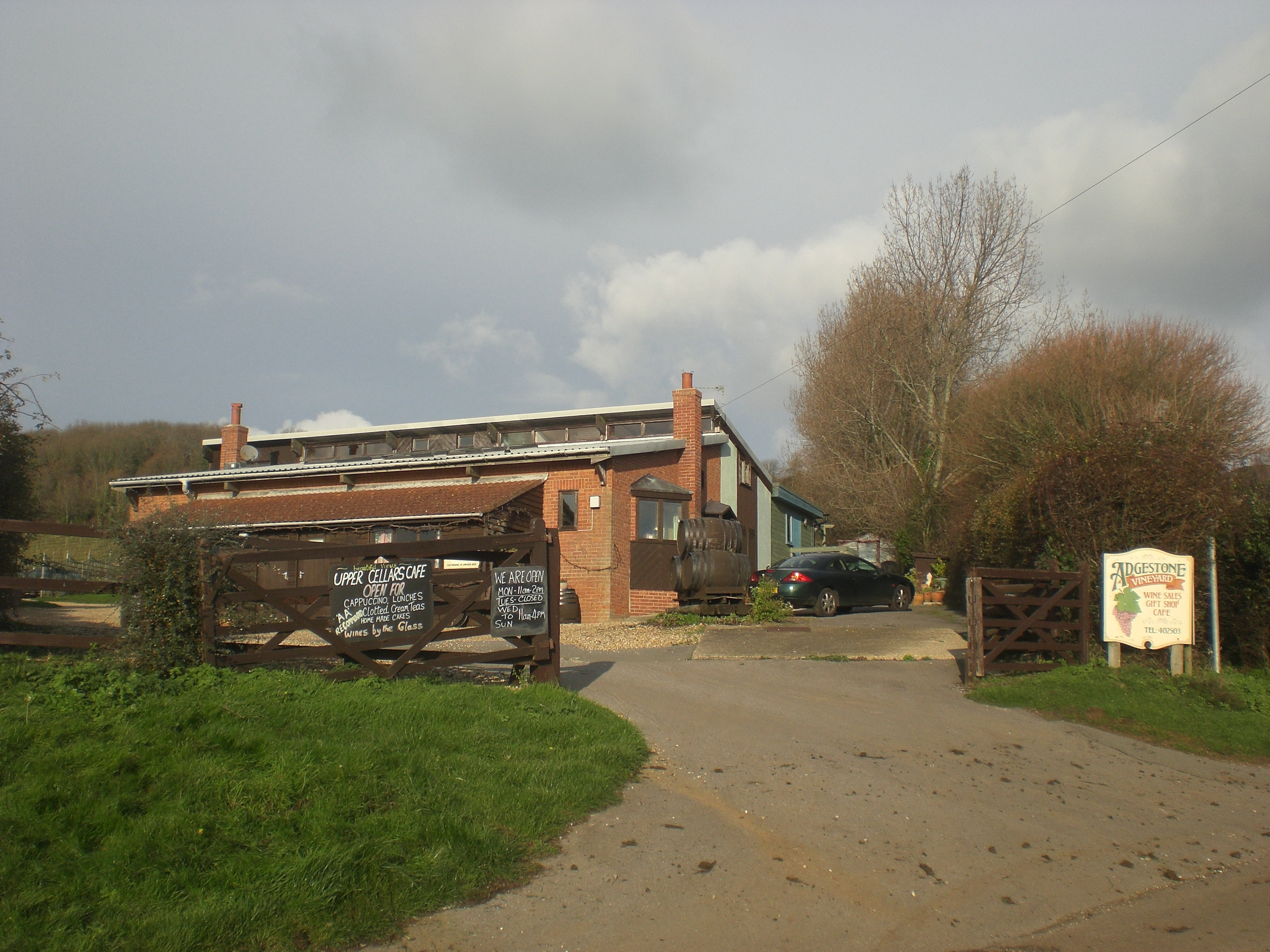 Adgestone Vineyard on the Isle of Wight.